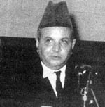 Foto de Alal al Fassi